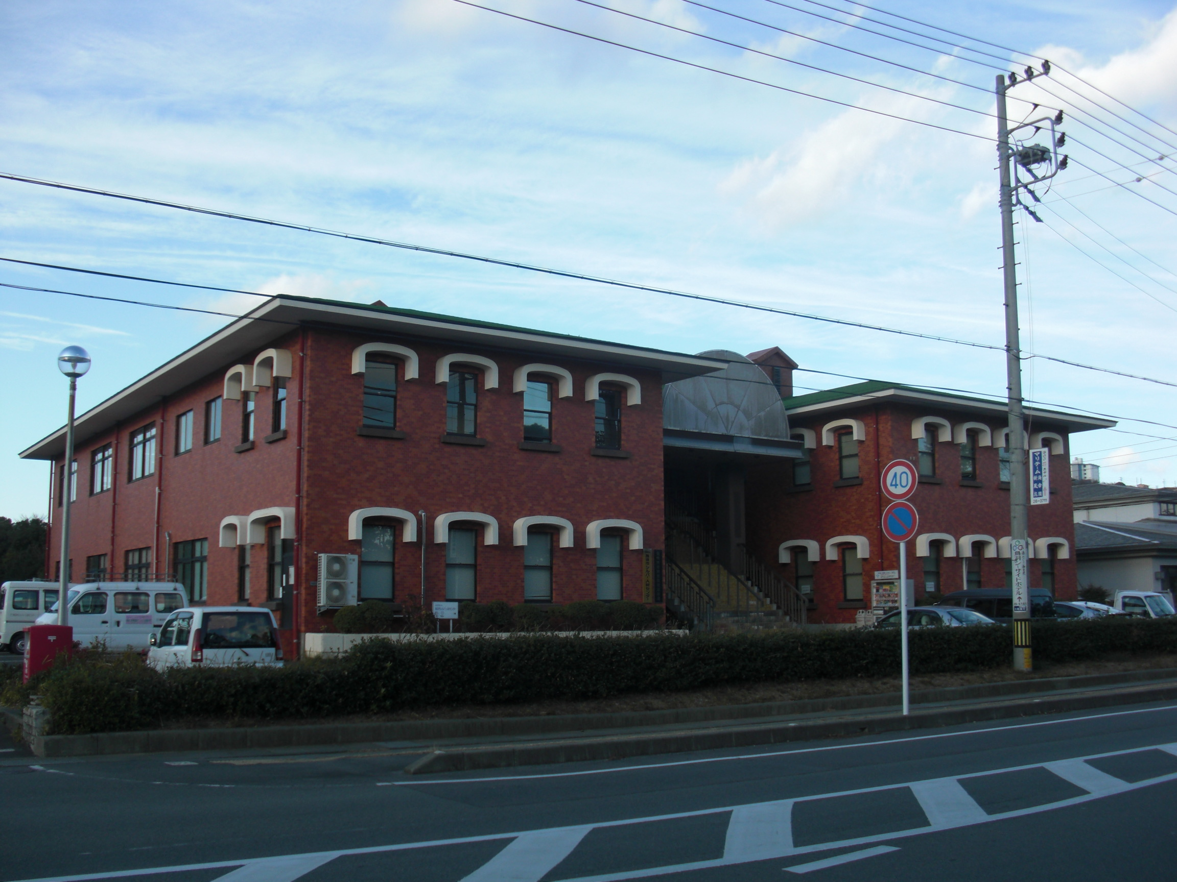 This is Toba Citizens' Forest Management Building in Mie, Japan. It has Toba City Board of Education, Water Supply Division of Toba City Hall and Toba Silver Human Resource Center.